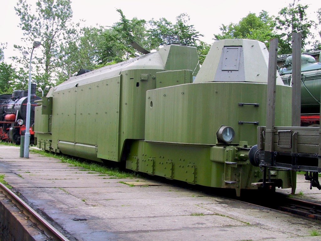 The German armoured motor railcar Panzertriebwagen 16 (PT 16) at Chabówka Rolling-Stock Heritage Park